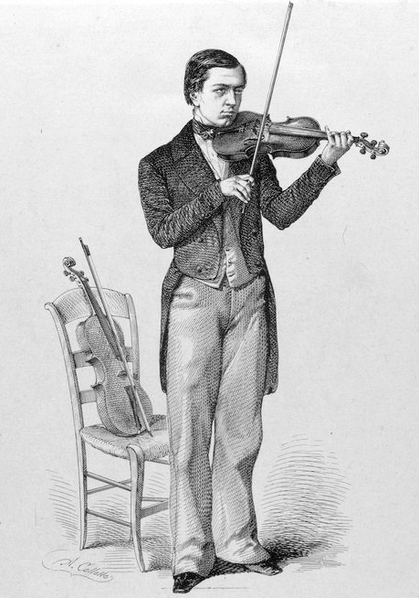 French composer and violinist Victor Chéri ((1830-1882).